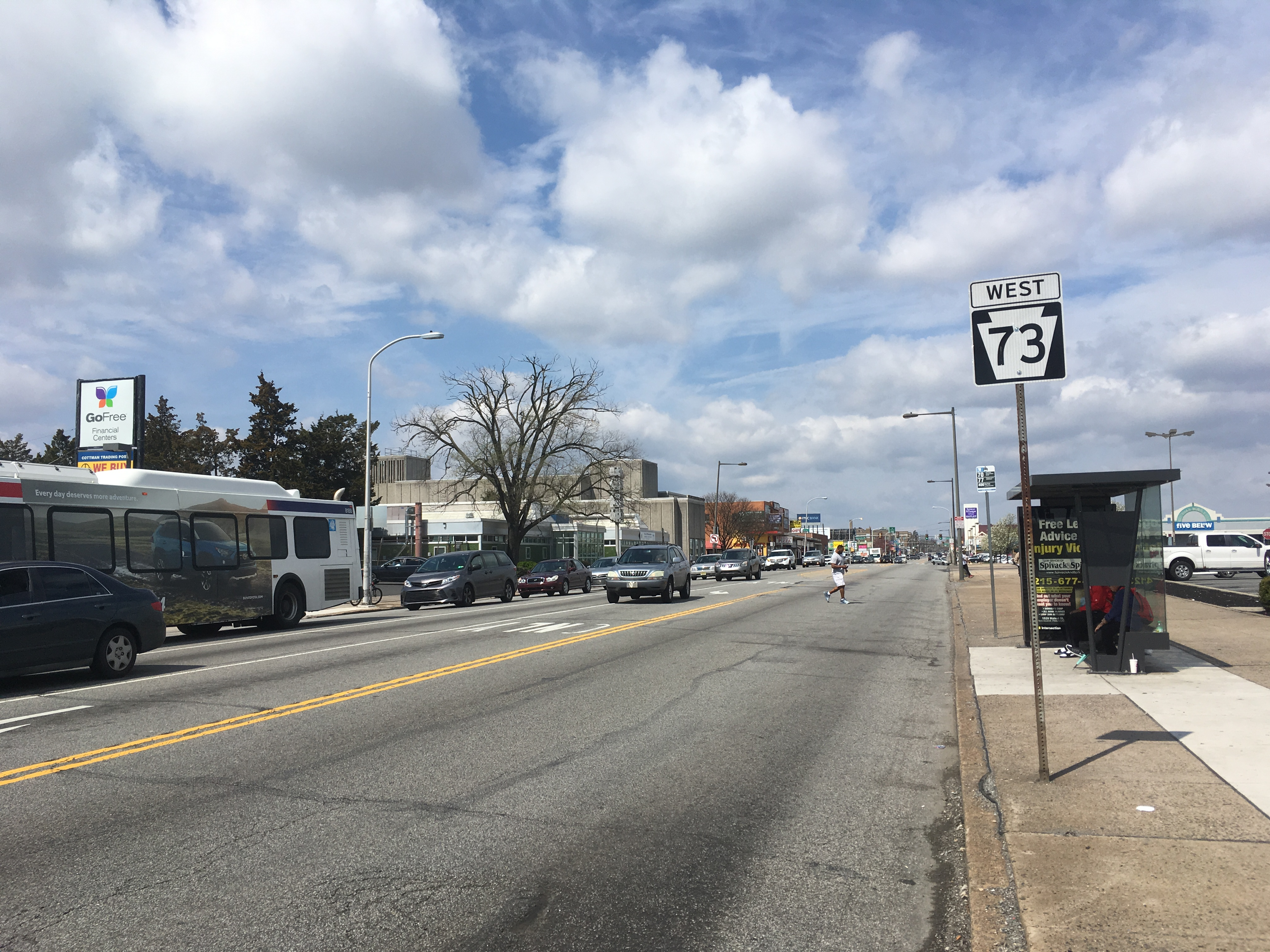 Westbound Pennsylvania Route 73 (Cottman Avenue) past the intersection with Bustleton Avenue in Philadelphia, Pennsylvania